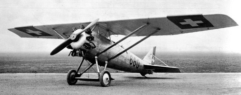 AC-1 designed by Alfed Comte (1926/7)